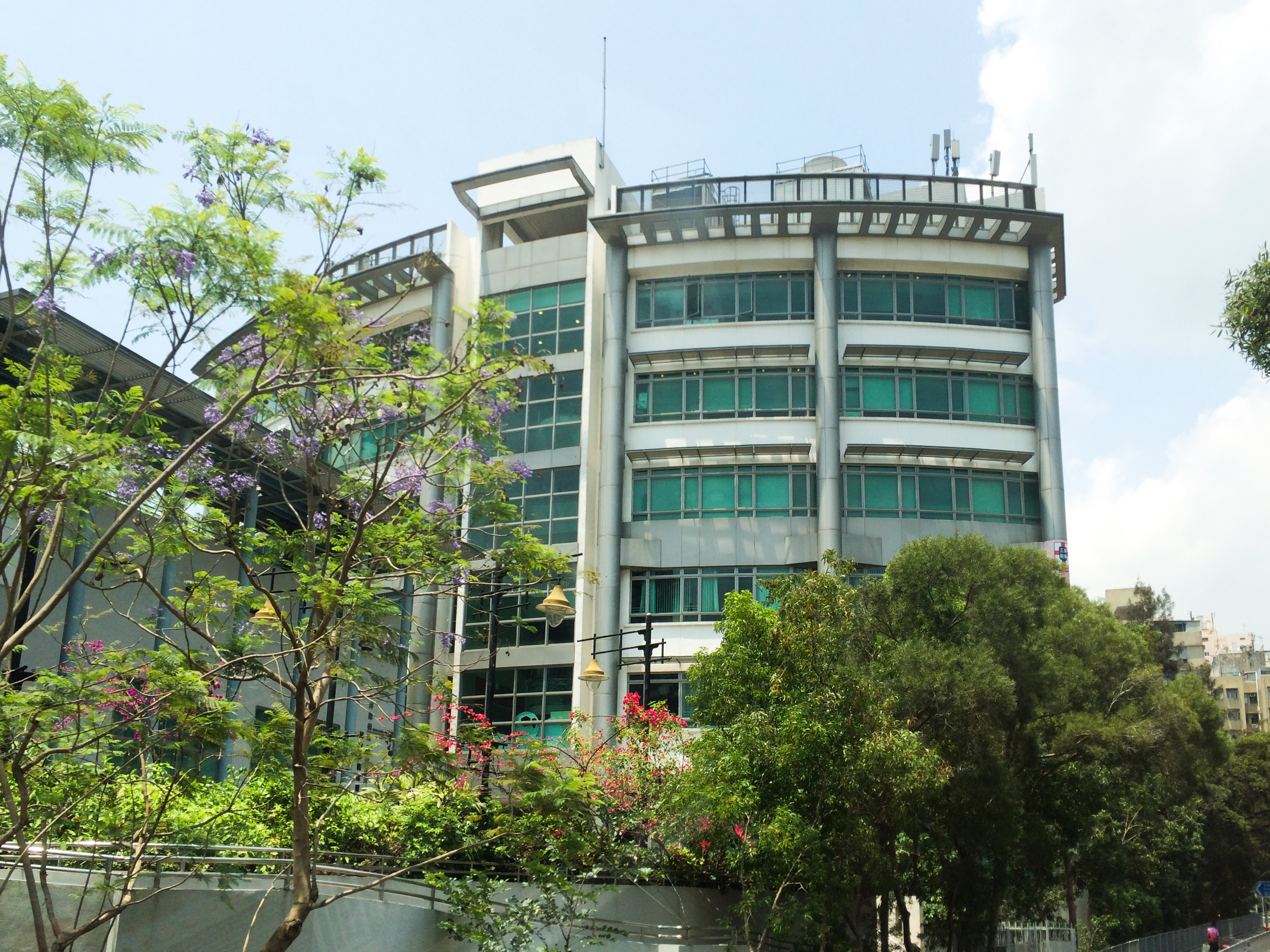 Tseng Choi Street Govt Building